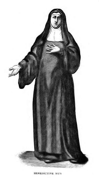 Published in London